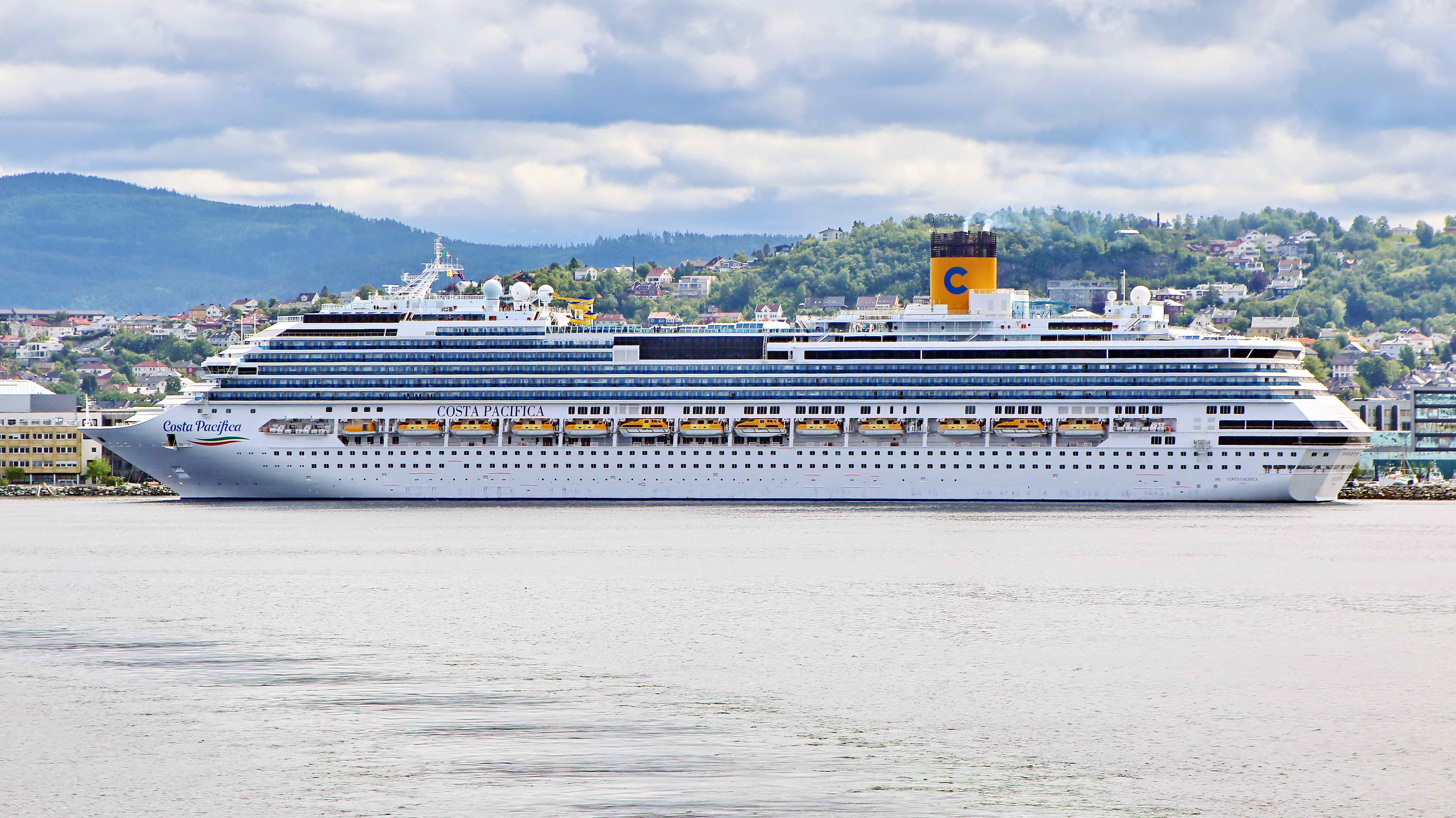 Cruise ship Costa Pacifica, June 2018 in Trondheim, Norway